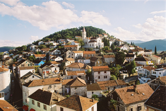 Metković, city in Croatia